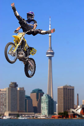 Toronto,Canada. Supermoto event at The Docks